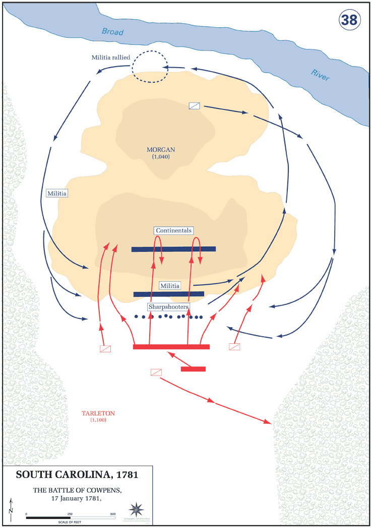 State of the Battle of Cowpens